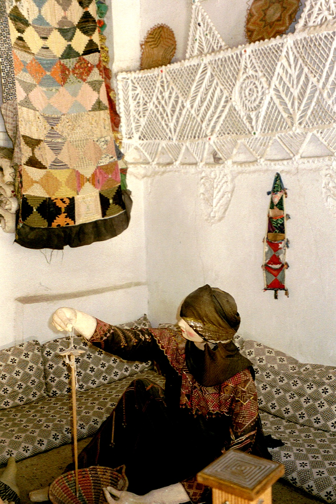 Part of the exebition in the Al Azam Palace, in Hama, Syria. Picture taken by me in June, 2001, with an automatic Olympus mju:zoom140 camera.